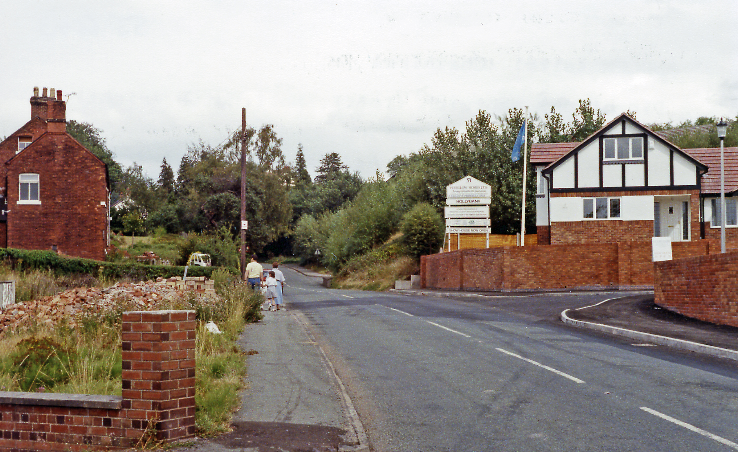 Site of Audlem station, 1990. View eastward on the A529 road, where the ex-GWR (Crewe) - Nantwich (to left) - Market Drayton (to right) - Wellington secondary main line used to cross. The station, which was on the right, was closed to passengers from 9/9/63 (with the Crewe - Wellington passenger service) and to goods from 2/2/64, but the Nantwich - Wellington line - always important for freight, survived until 8/5/67.